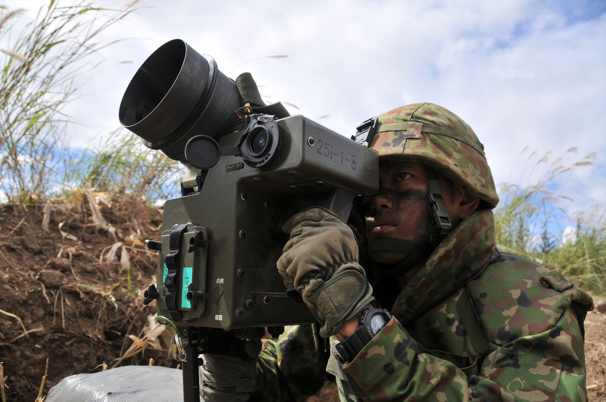 Title ０１式軽対戦車誘導弾 24.08.27~09.12 ＮＡ・方面隊総合戦闘訓練_R.JPG Album 装備 ０１式軽対戦車誘導弾（北部方面隊総合戦闘力演習・第２５普通科連隊）